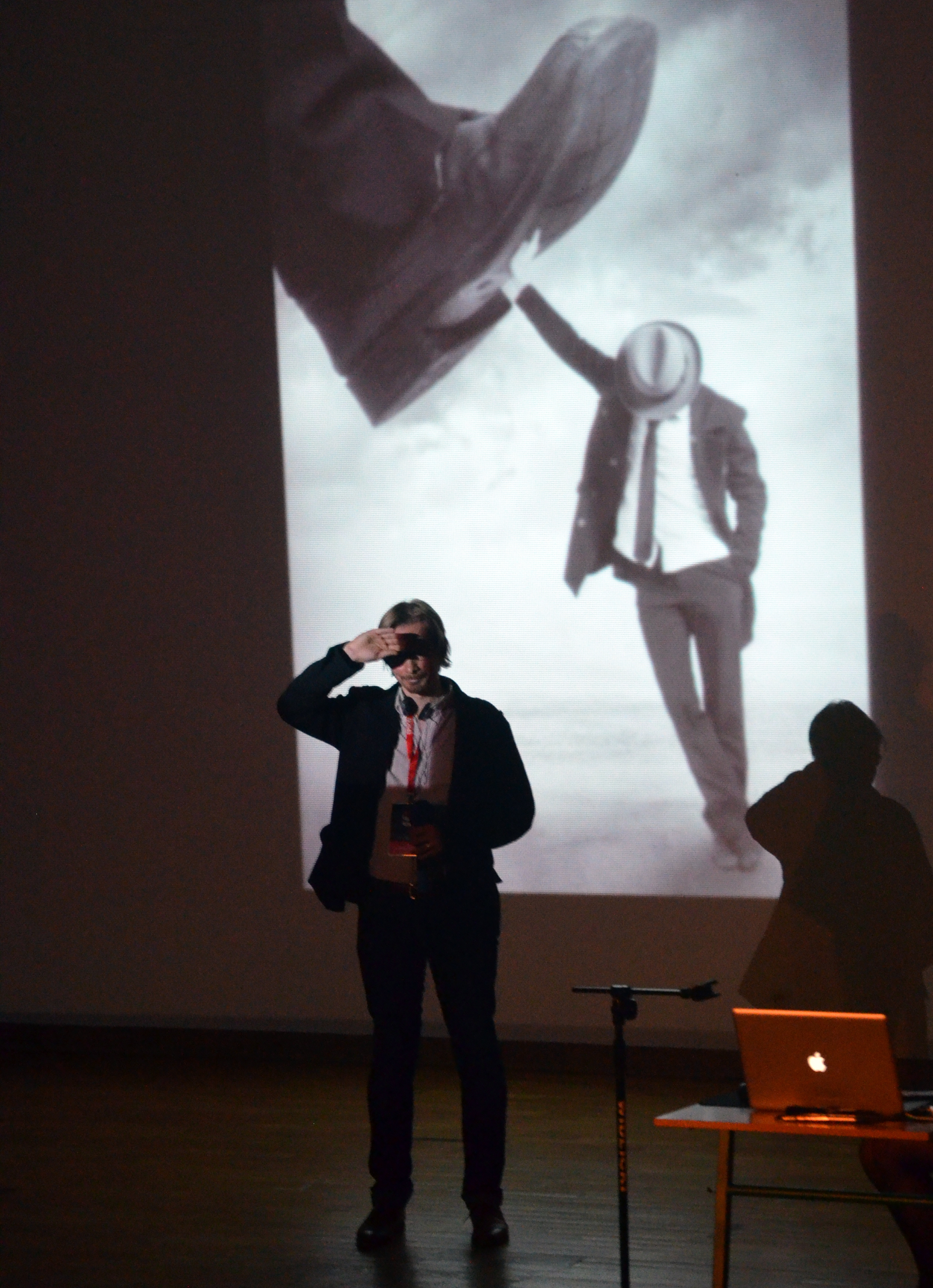 Tommy Ingberg